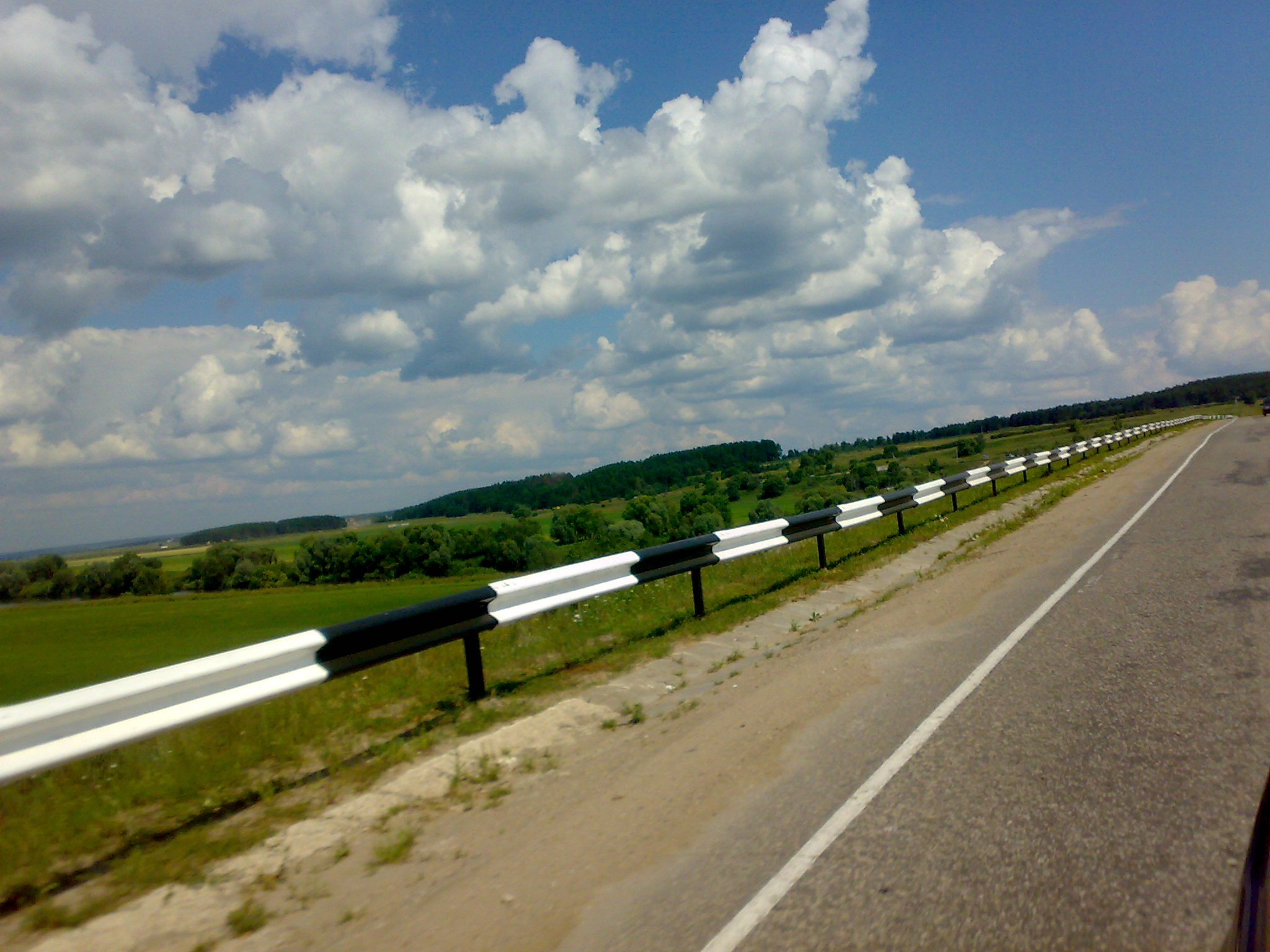 took this photo using my mobile, in July 2008, in Kaluga Region.